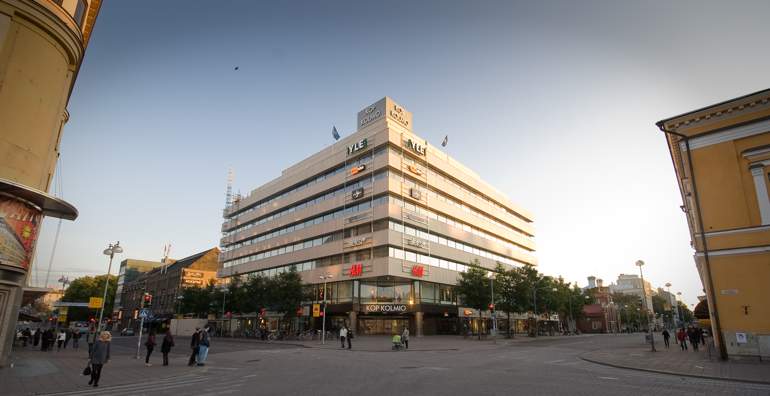 KOP corner Turku